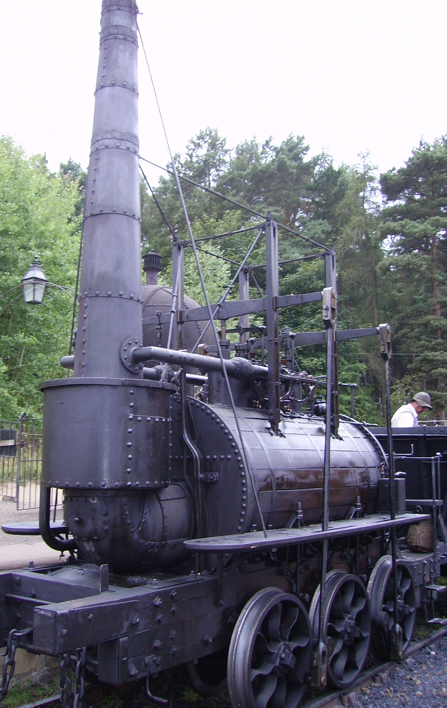 Beamish Museum, County Durham, England. The view west along the platform on the Pockerley Waggonway. Steam Elephant is the locomotive in steam today.